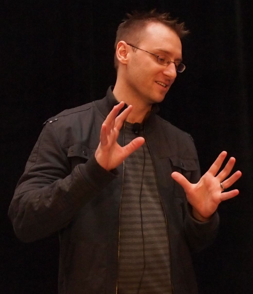 Photo of Donald Mustard (ChAIR Entertainment Group) talking with David Kalina of Tiger Style (cropped out) at the 2011 Game Developers Conference at the talk "Infinity Blade: How We Made a Hit, What We Learned, and Why You Can Do it Too!"